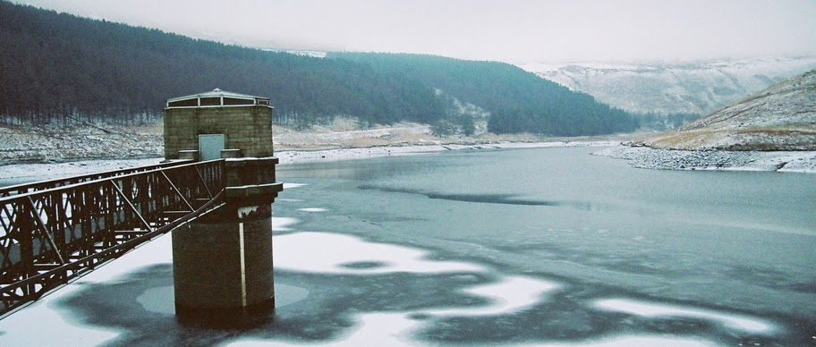 Yeoman Hey Reservoir, above Dovestones Reservoir, January 2010